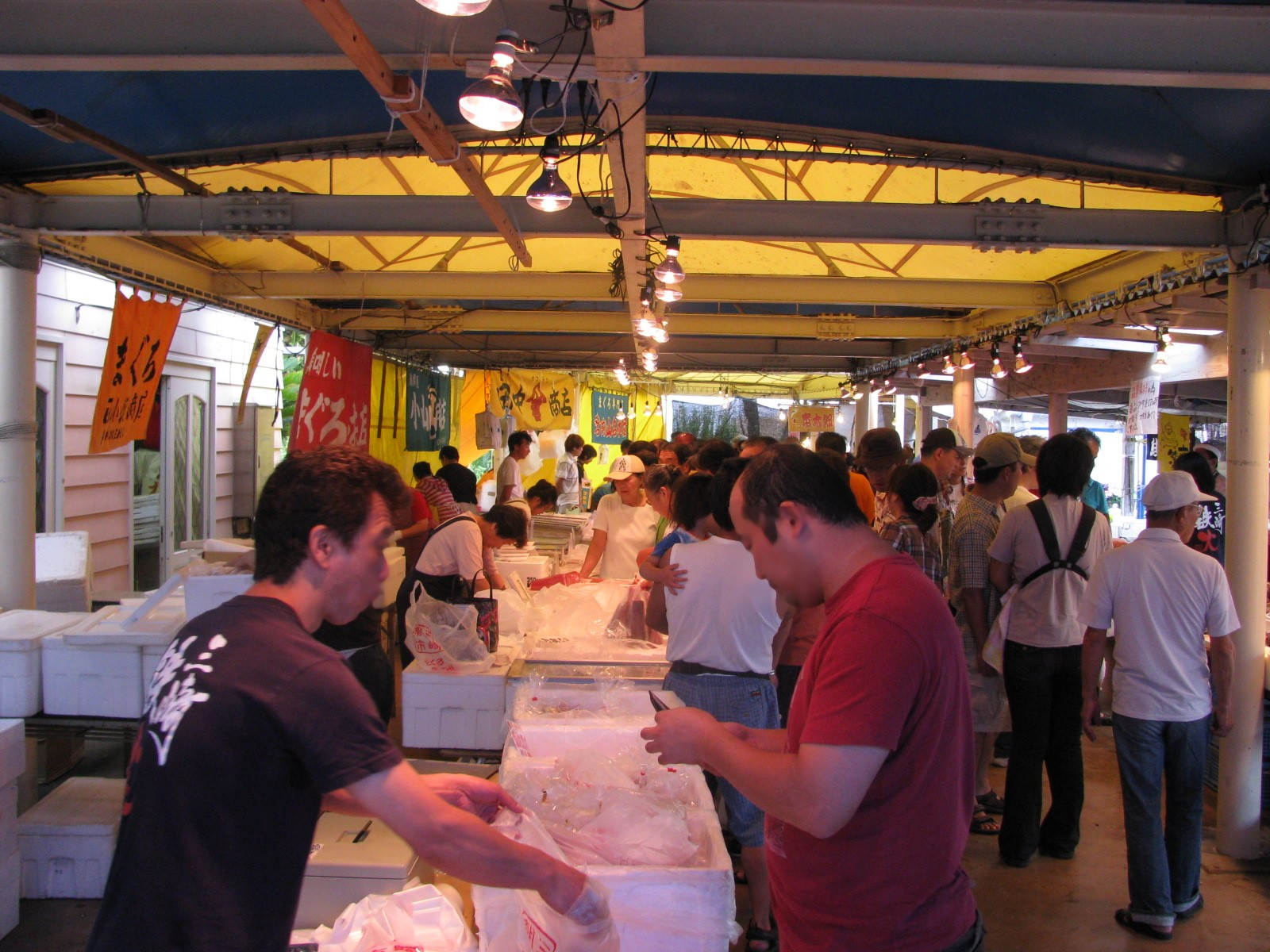 Misaki Asaichi (morning market). Misaki is a fishing port, located in Miura, Kanagawa, Japan.